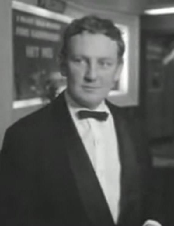 Belgian writer Hugo Claus at the premiere of the film Het mes (Amsterdam, 1961)